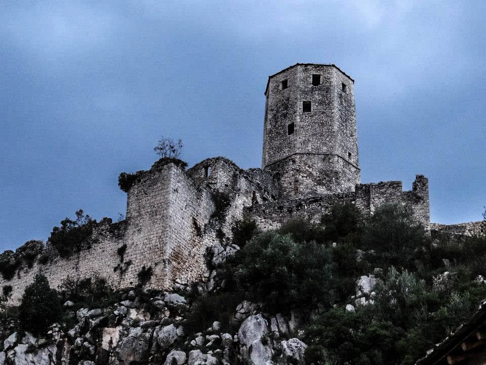 Tower in Pocitelj, Bosnia and Herzegovina